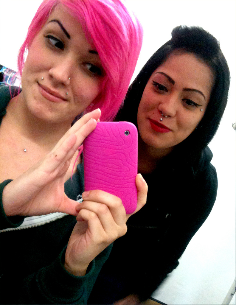 We love themmmm